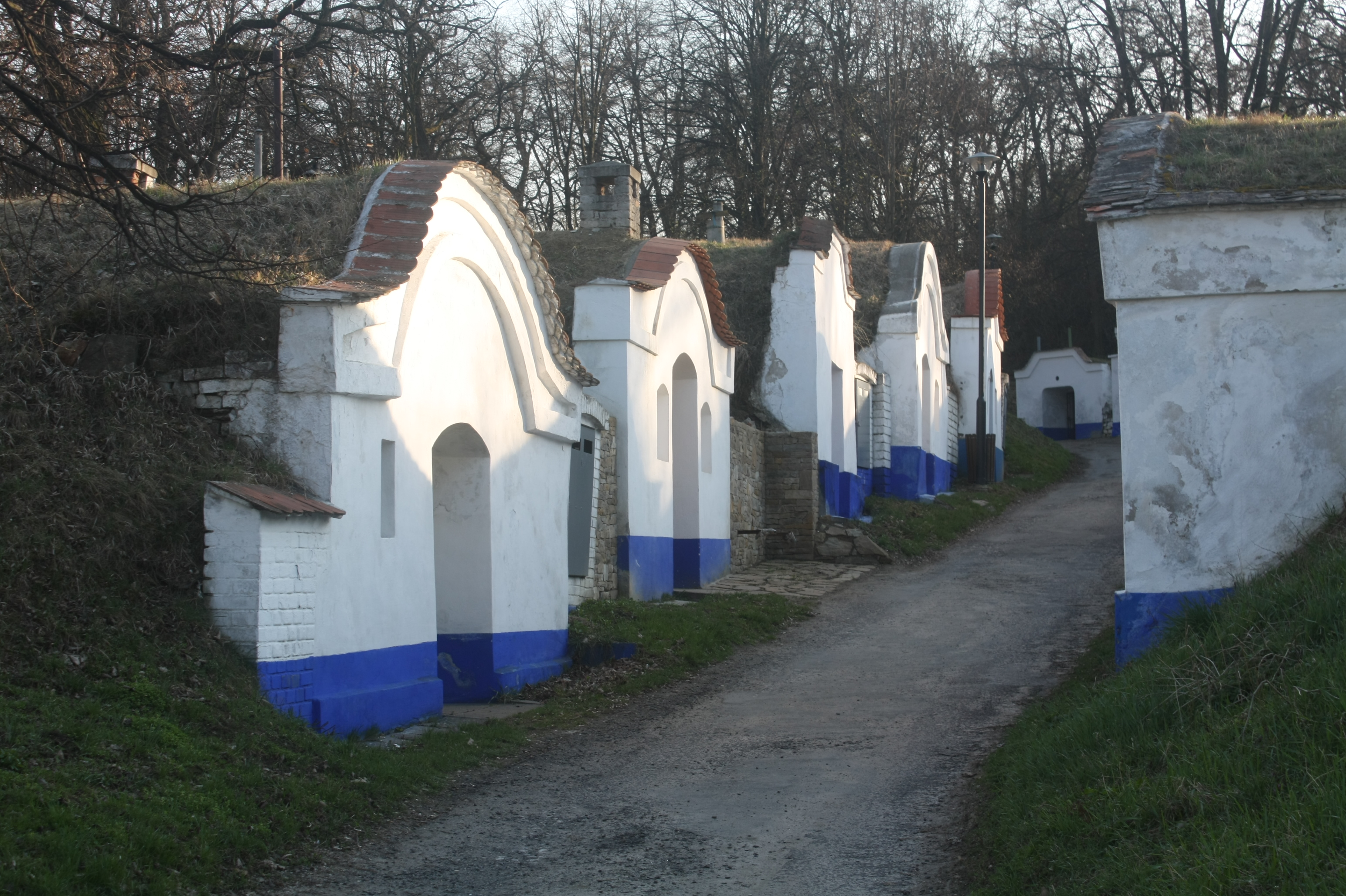 Petrov (Hodonín district, Czech Republic) - Plže wine cellars